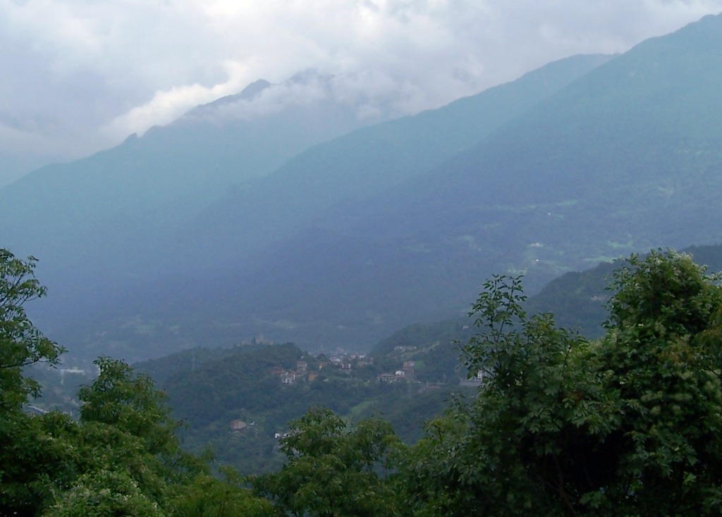 Breno, Val Camonica